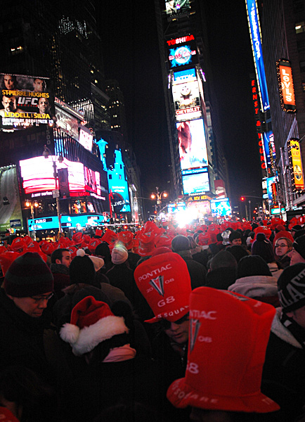 Times Square, New Year's Eve, December 31, 2007